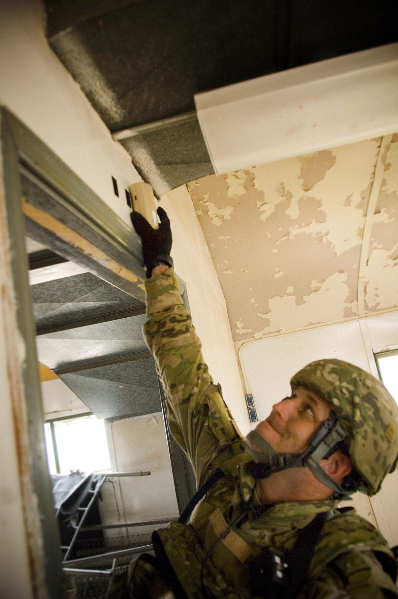 Future Combat Systems Unattended Ground Sensor